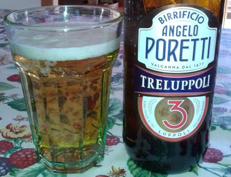 Angelo Poretti Treluppoli (.66 liter bottle + unrelated glass)